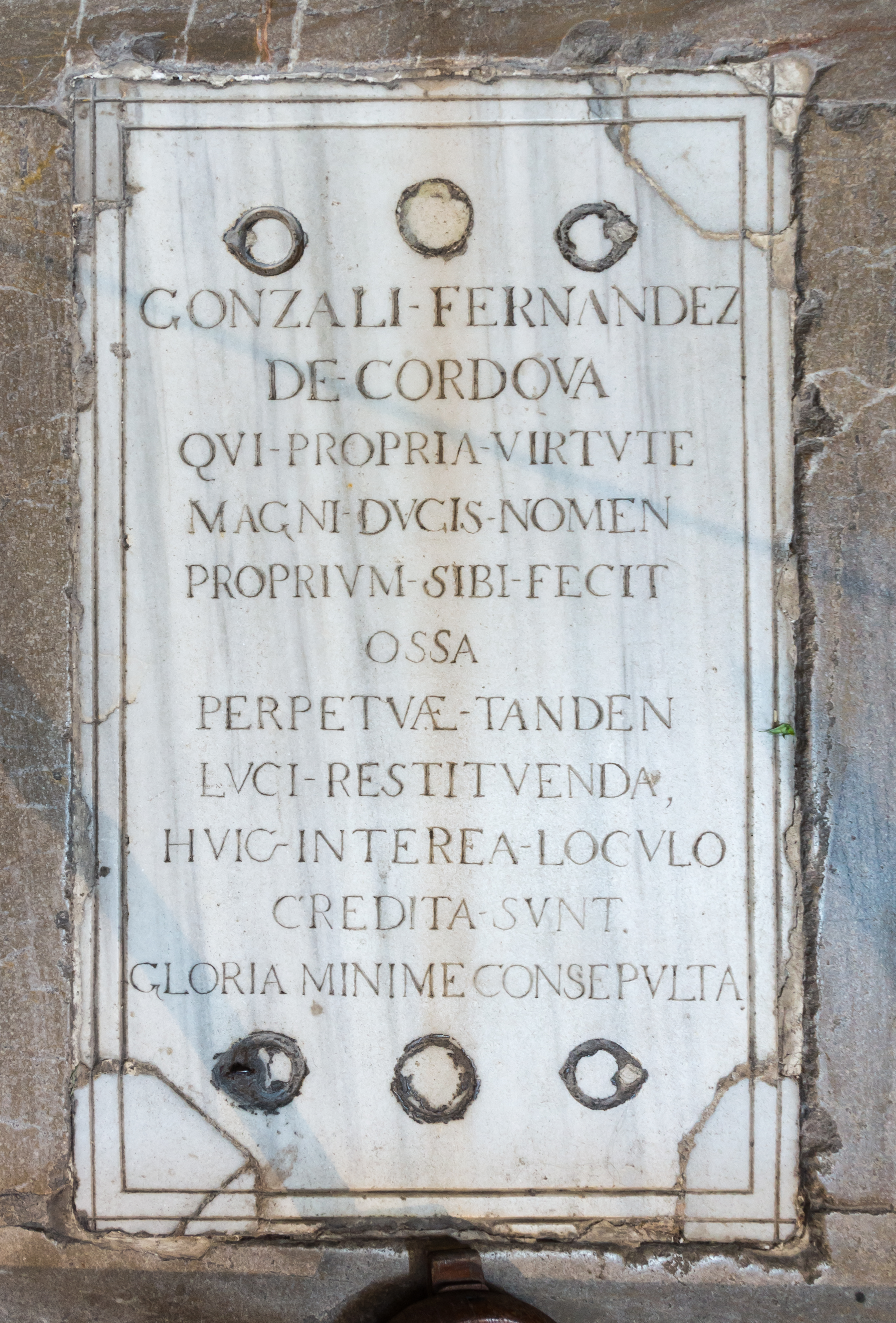 Tombstone of the "Gran Capitán" (Gonzalo Fernández de Córdoba) Monastery San Jerónimo, Granada, Andalusia, Spain